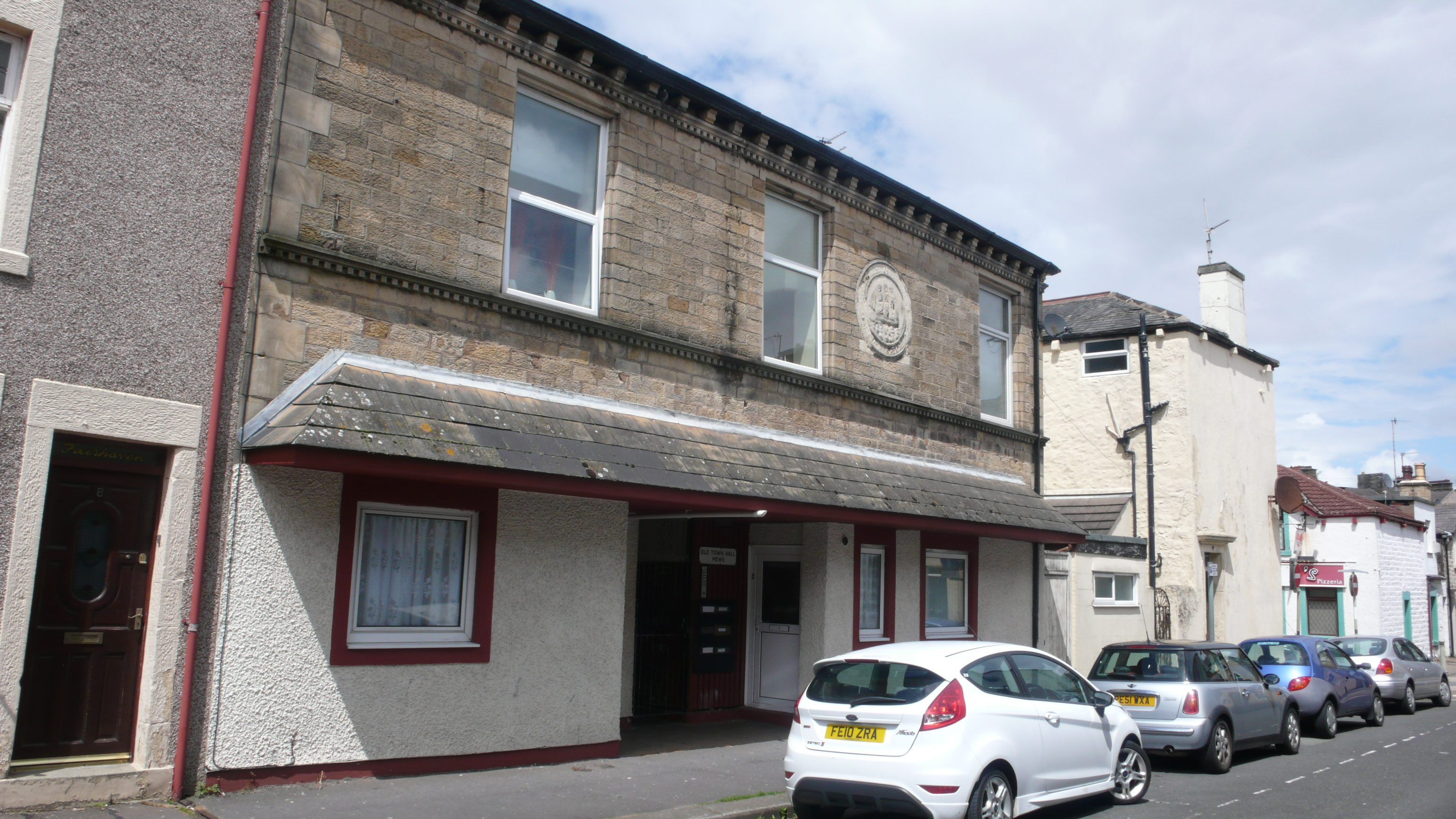 Old Town Hall Mews